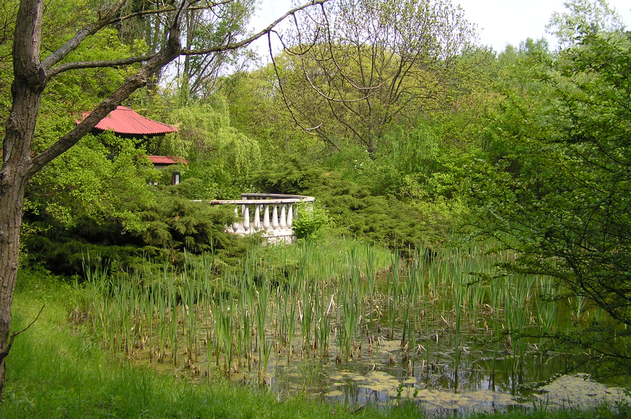 Arborétum Mlyňany, section of East-Asian dendroflora